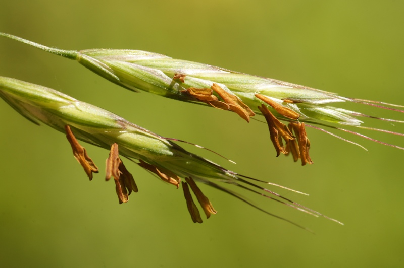 Bromus arvensis